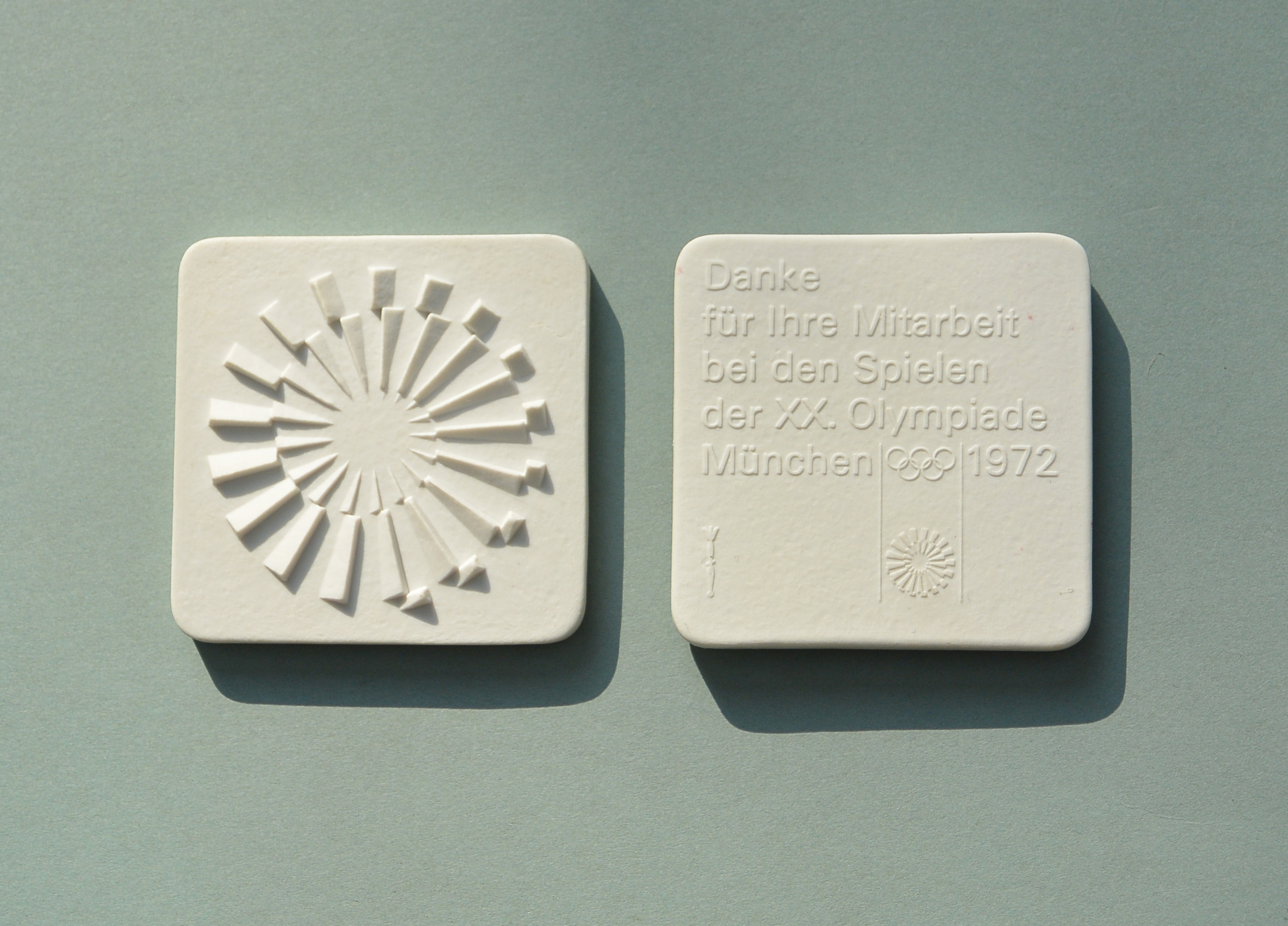 Gift for the employees of the companies working at the Olympic Games Munich '72. Design: Team Otl Aicher. Manufacturer: Staatliche Porzellan Manufaktur Berlin/Selb